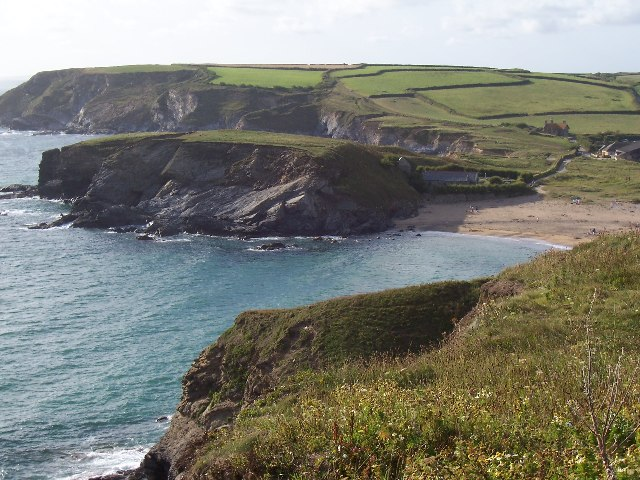 Church Cove. Church Cove showing the beach, Church of St Winwaloe and Winnianton Farm